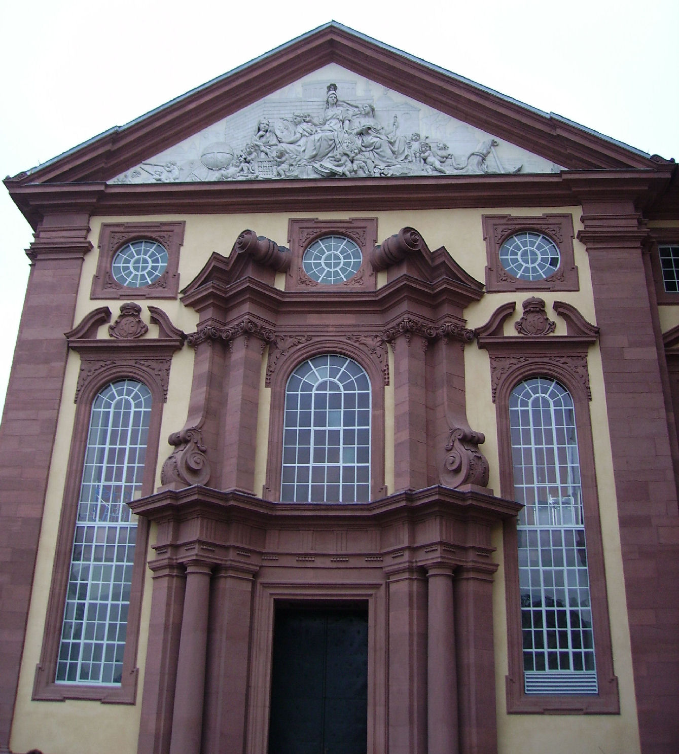 castle of Mannheim, Germany